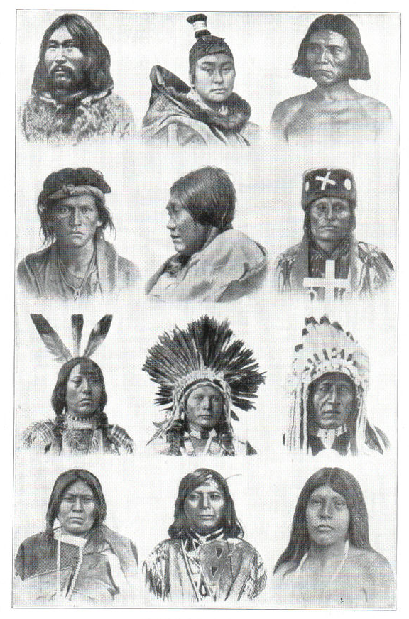 Natives of North America Caption Inuit of Labrador Inuit woman of Greenland Apache Navaho Koskimo woman, Vancouver Cheyenne Mandan Ute Blackfoot Woman Moki chief Nez Percé Wichita woman